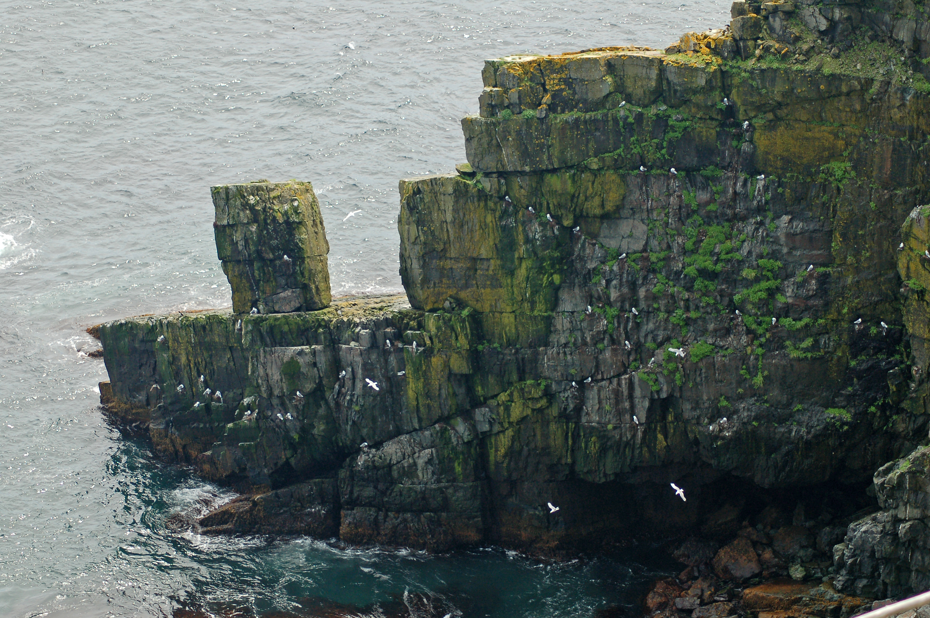 Cliffs at Cape Pine at the southern tip of the Avalon Peninsula, Newfoundland. There are a number of kittiwakes nesting on the cliffs.